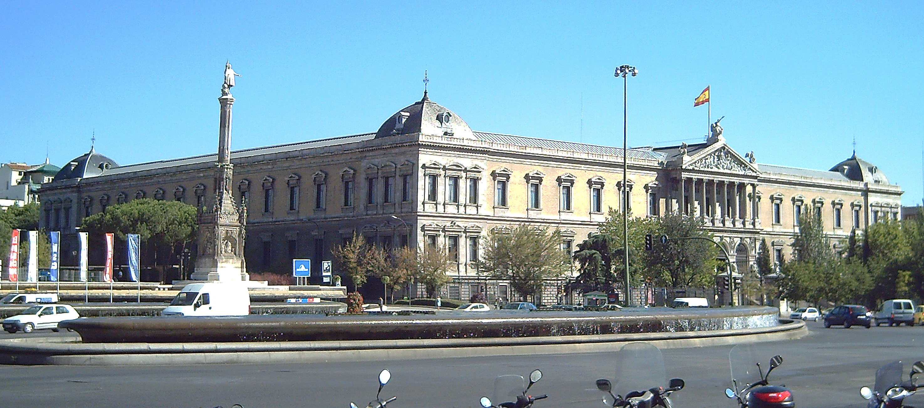 View of the façade of the National Library of Spain, in Madrid. On the back, there is the National Archaeological Museum. The image was taken from the Plaza de Colón ("Columbus Square"). The building was projected by architect Francisco Jareño (1818–1892) and built between 1866 and 1892. The column before the building is the monument to Columbus (inaugurated in 1892).